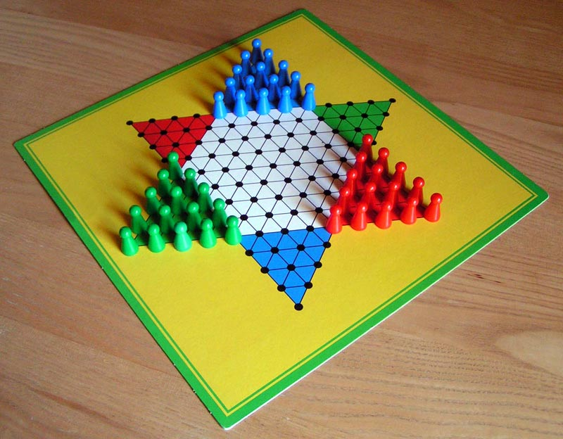 Stern-Halma (Chinese Checkers) board. Starting position for a three-players game.